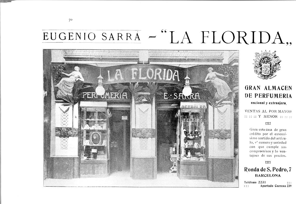 La Florida (1914) Barcelona